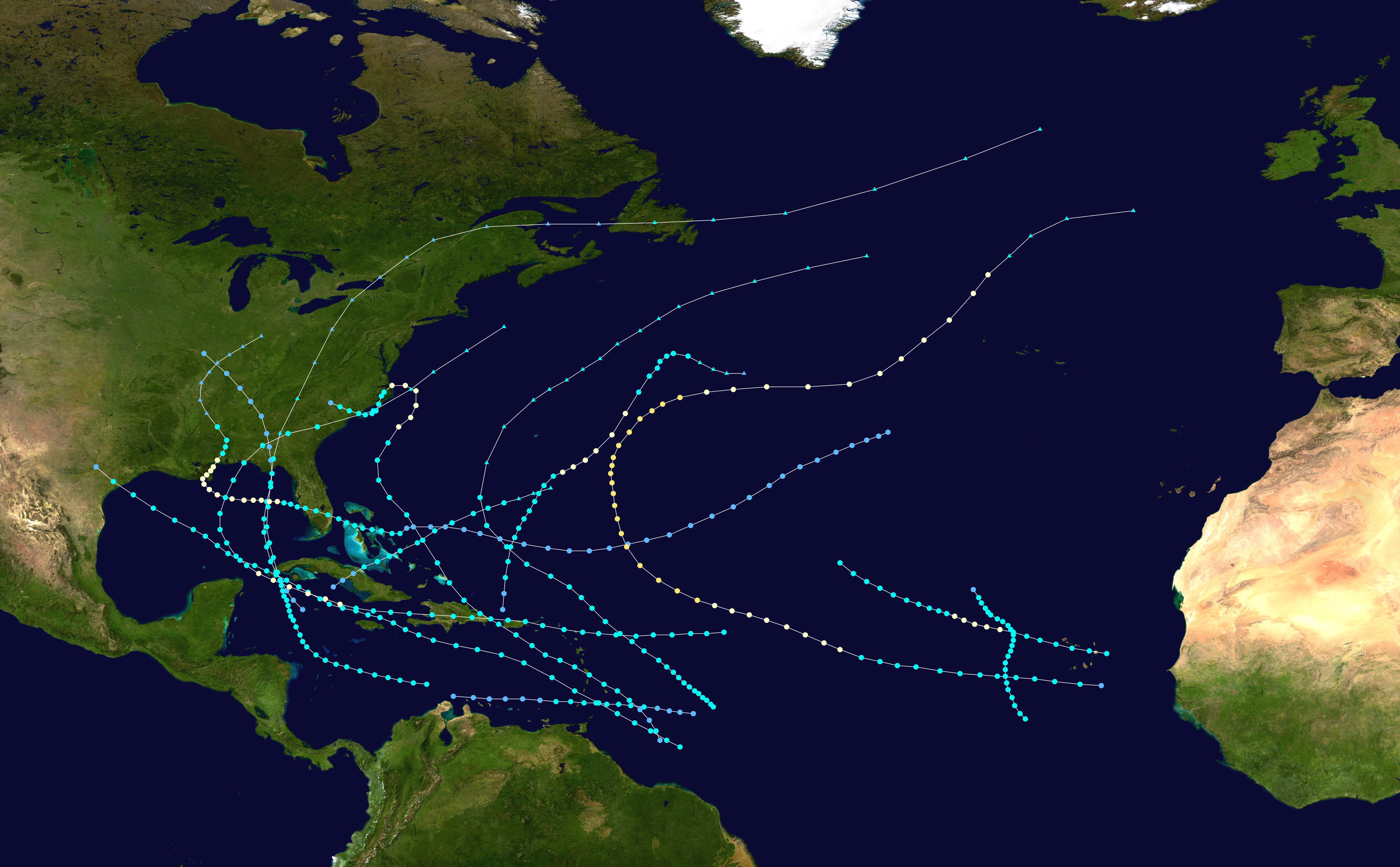 This map shows the tracks of all tropical cyclones in the 1901 Atlantic hurricane season. The points show the location of each storm at 6-hour intervals. The colour represents the storm's maximum sustained wind speeds as classified in the Saffir-Simpson Hurricane Scale (see below), and the shape of the data points represent the type of the storm. Saffir–Simpson scale Tropical depression≤38 mph≤62 km/h Category 3111–129 mph178–208 km/h Tropical storm39–73 mph63–118 km/h Category 4130–156 mph209–251 km/h Category 174–95 mph119–153 km/h Category 5≥157 mph≥252 km/h Category 296–110 mph154–177 km/h Unknown Storm type Tropical cyclone Subtropical cyclone Extratropical cyclone / Remnant low / Tropical disturbance / Monsoon depression